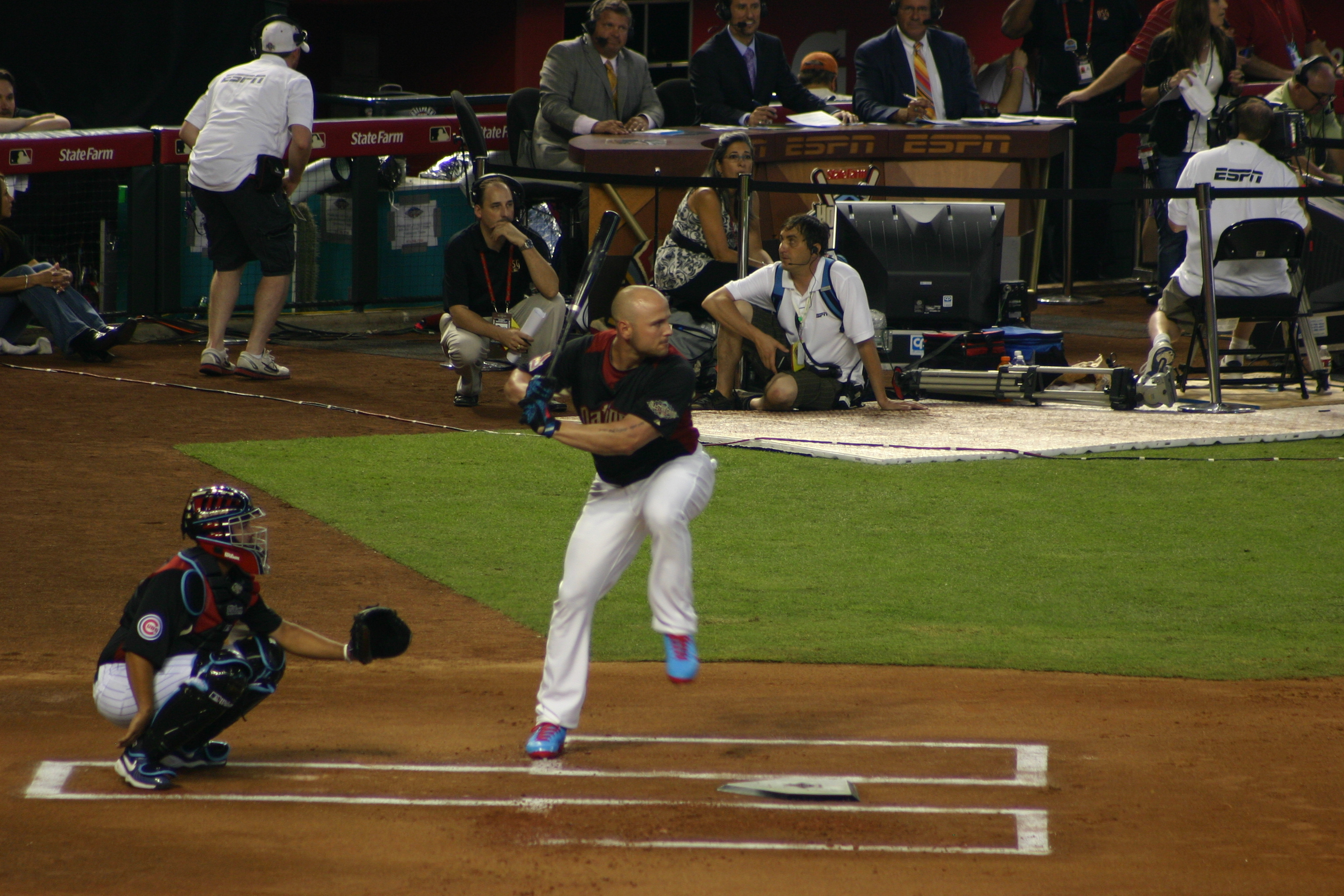 Matt Holliday at bat during round 1 of the 2011 Home Run Derby